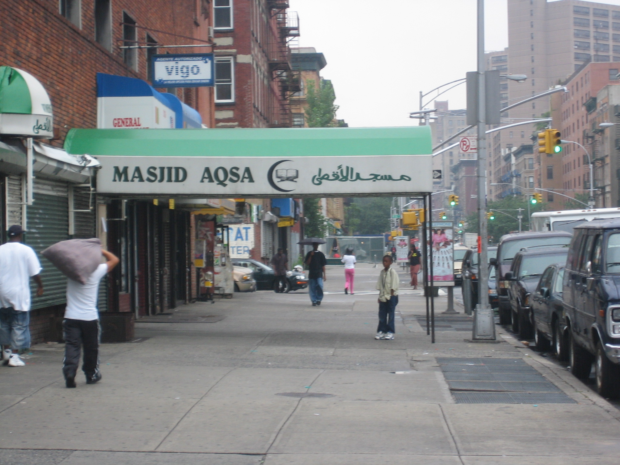 A mosque of West African immigrants, Harlem, Frederick Douglass Boulevard and 116th Street, New York City. Taken with a Canon PowerShot SD200